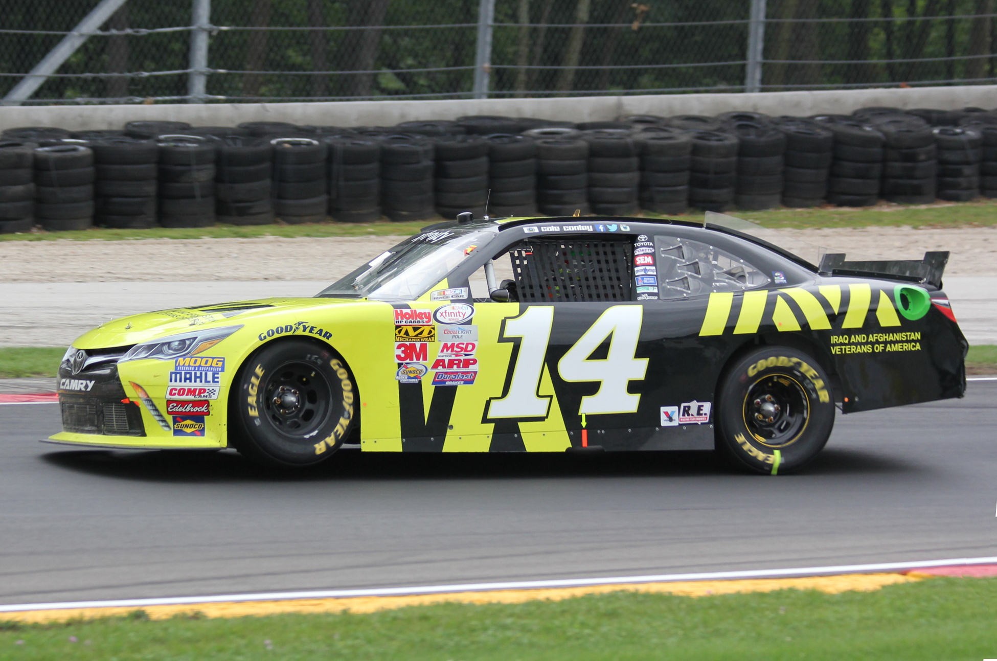 The NASCAR Xfinity Series car of Cale Conley turning left in Turn 6 at Road America.